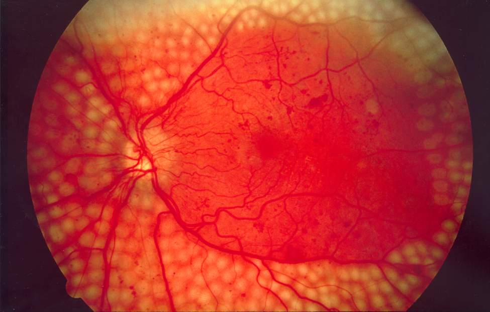 Fundus photo showing scatter laser surgery for diabetic retinopathy. Ref#: EDA09